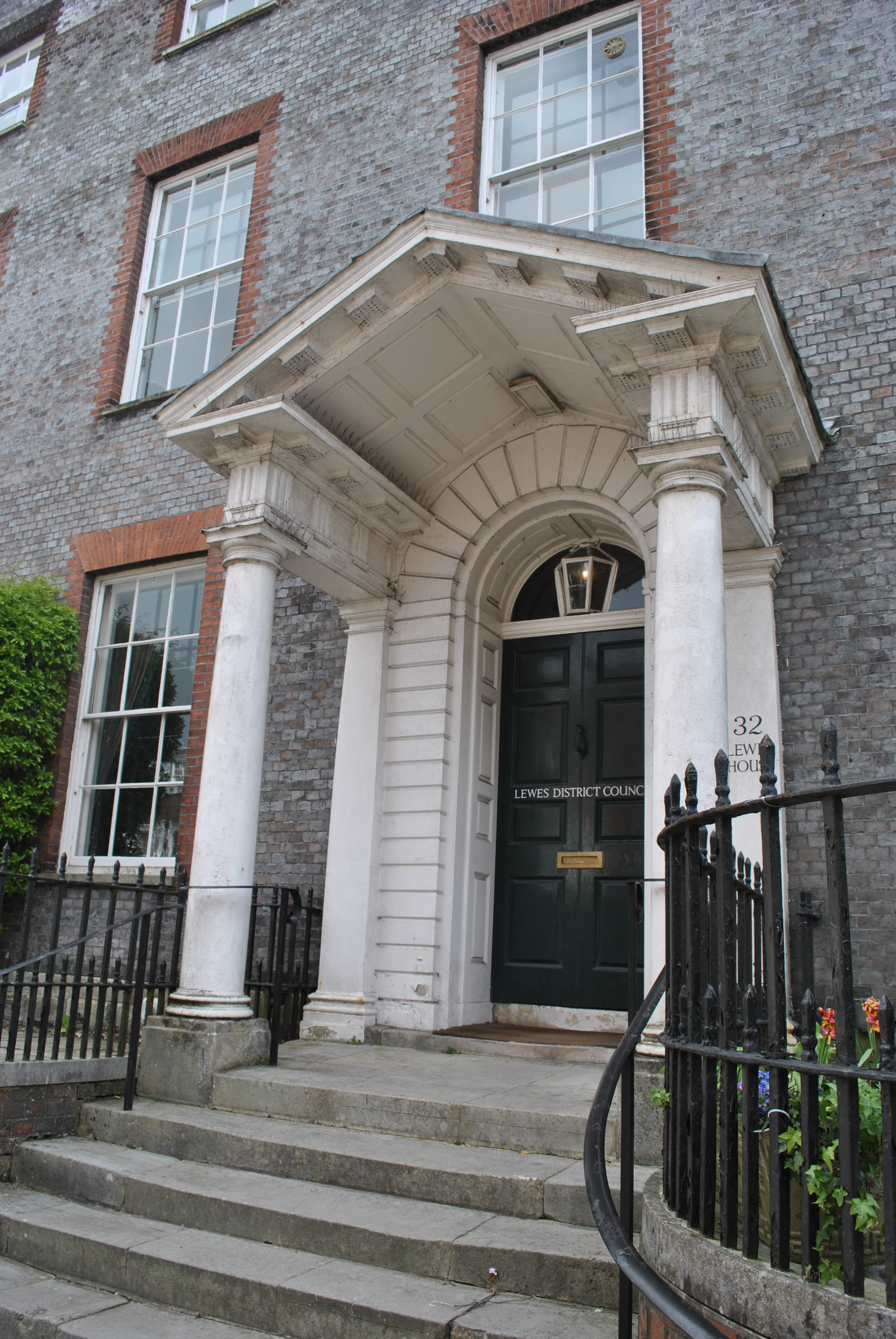 Lewes House, 2017, Originally published in Queer Places, Vol. 2.1: Retracing the Steps of LGBTQ people around the World